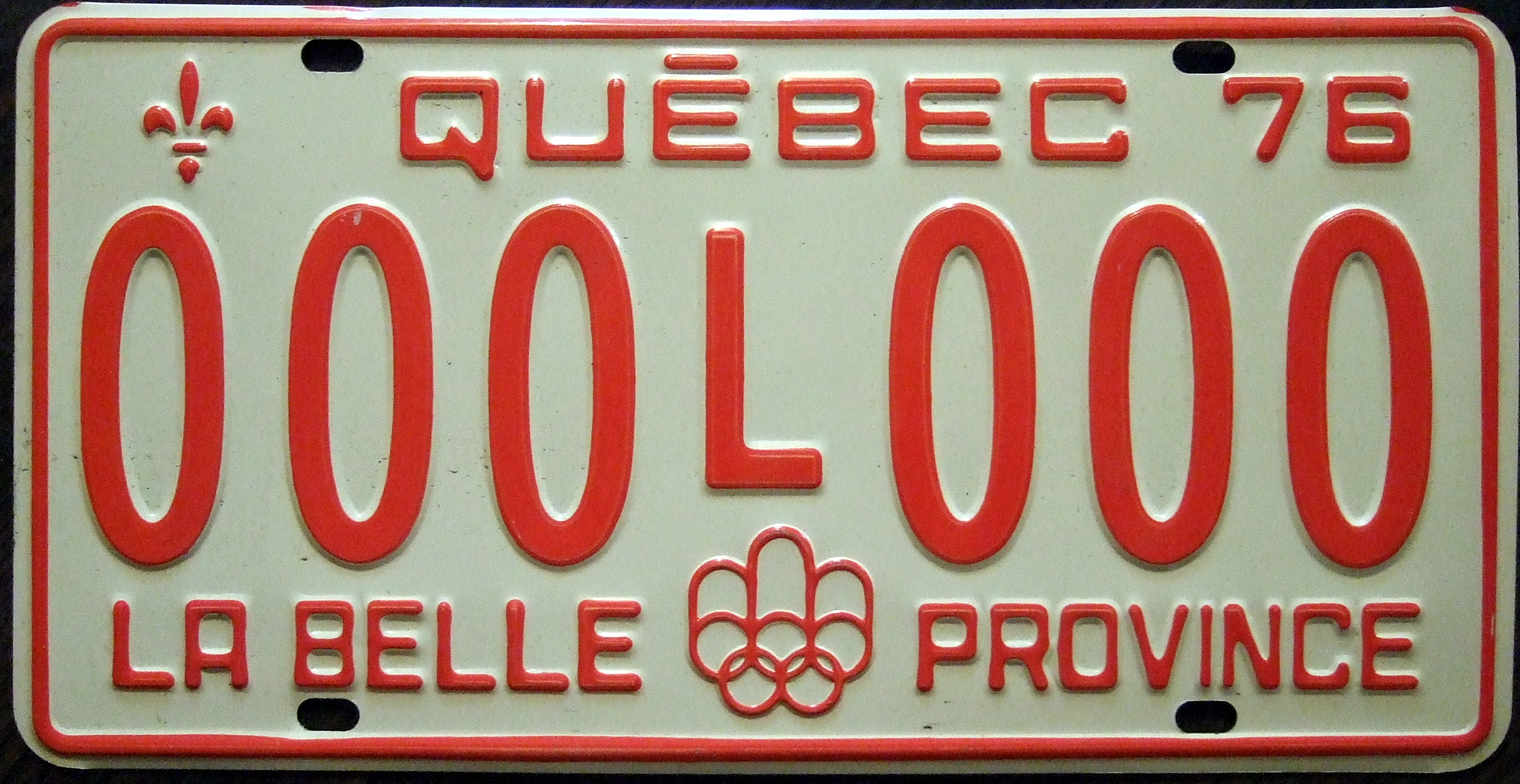 In 1976, Quebec would issue an Olympics license plate for the 1976 Summer Olympic Games held in Montreal. Unusual color of red on cream yellow for Quebec plates in 1976.